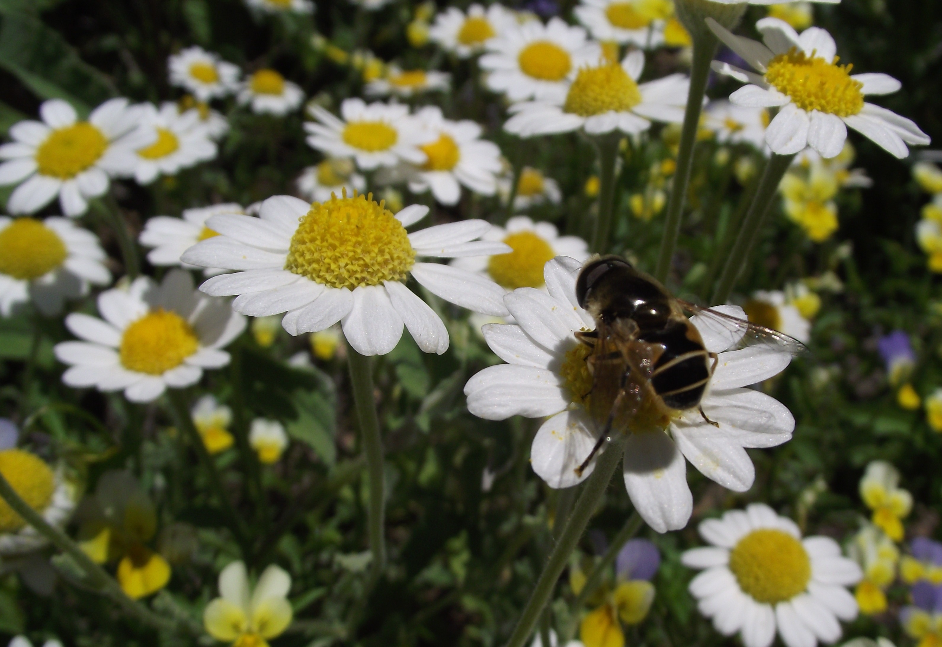 Anthemis tomentosa with pollinator in the UC Botanical Garden, Berkeley, California, USA. Identified by sign.